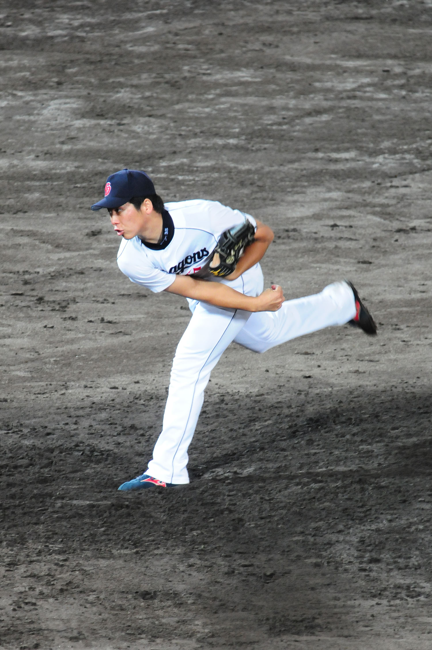 Takehiko Tsuji, pitcher of the Chunichi Dragons, at Akita Prefectural Baseball Stadium.